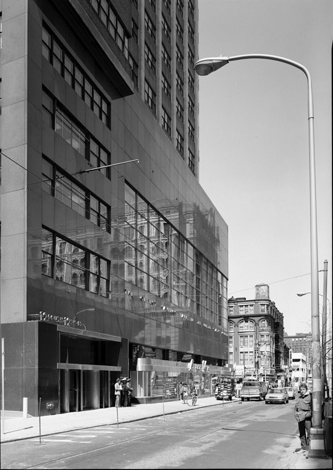 View of 12th Street Facade of the PSFS Building (Loews Philadelphia Hotel) from street level. Looking from South to North. Cropped from original.